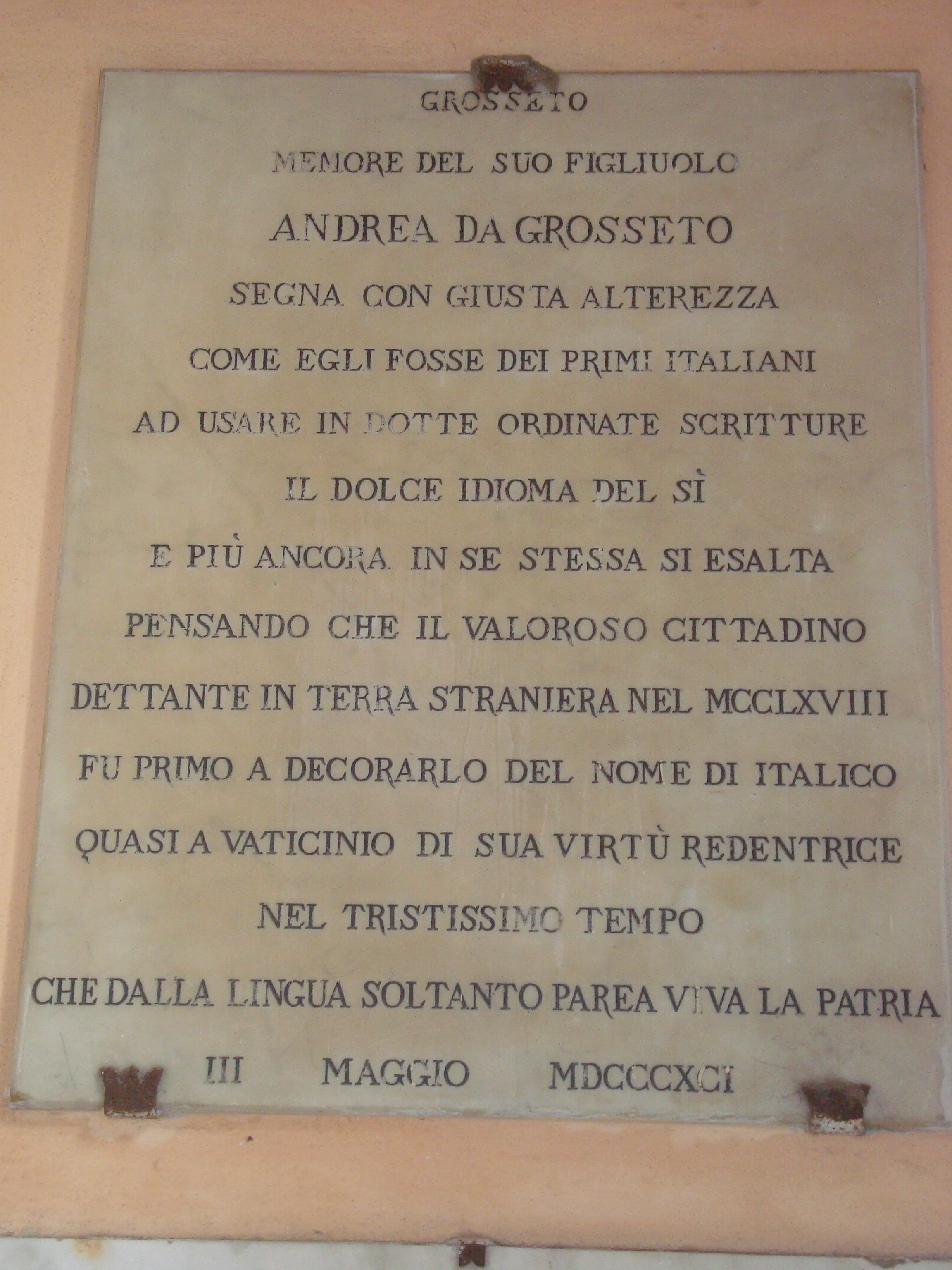 Andrea da Grosseto, memorial plaque